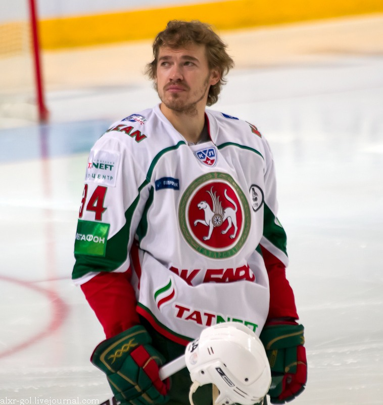 KHL game Amur Khabarovsk vs. Ak Bars Kazan on September 28, 2011. HC Neftekhimik forward Dmitri Obukhov.